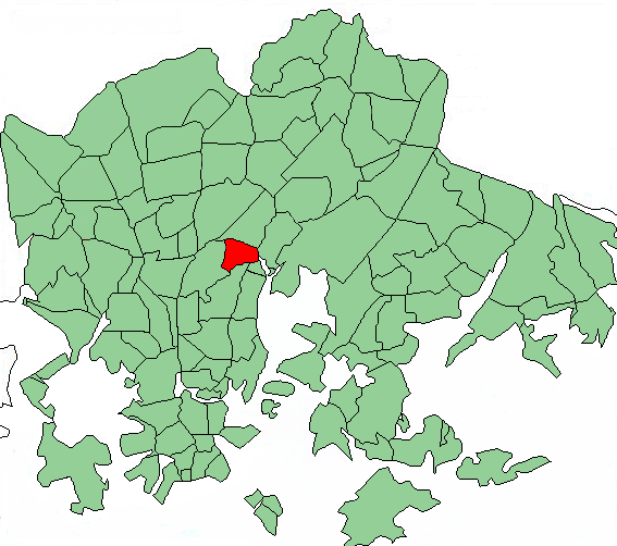 Map of Helsinki highlighting Koskela